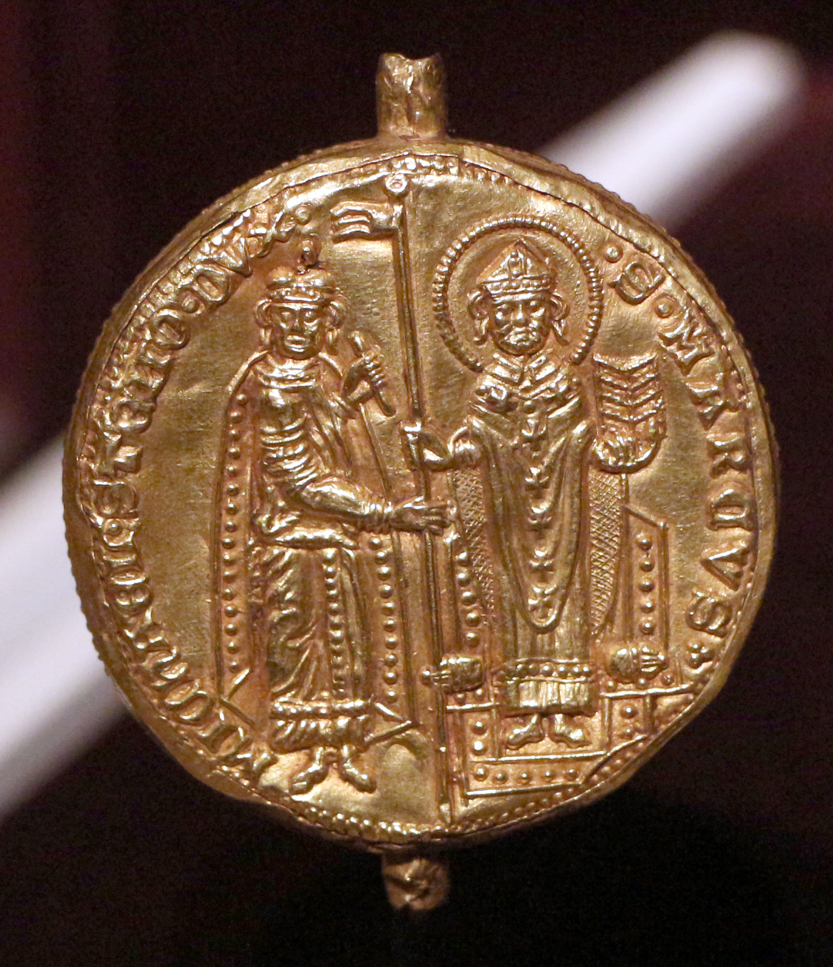 Metalware in the Cleveland Museum of Art